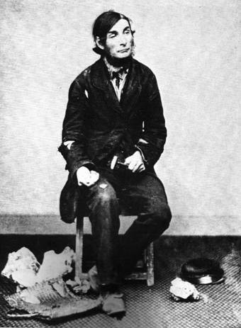 Picture of aka Flint Jack, born 1815.